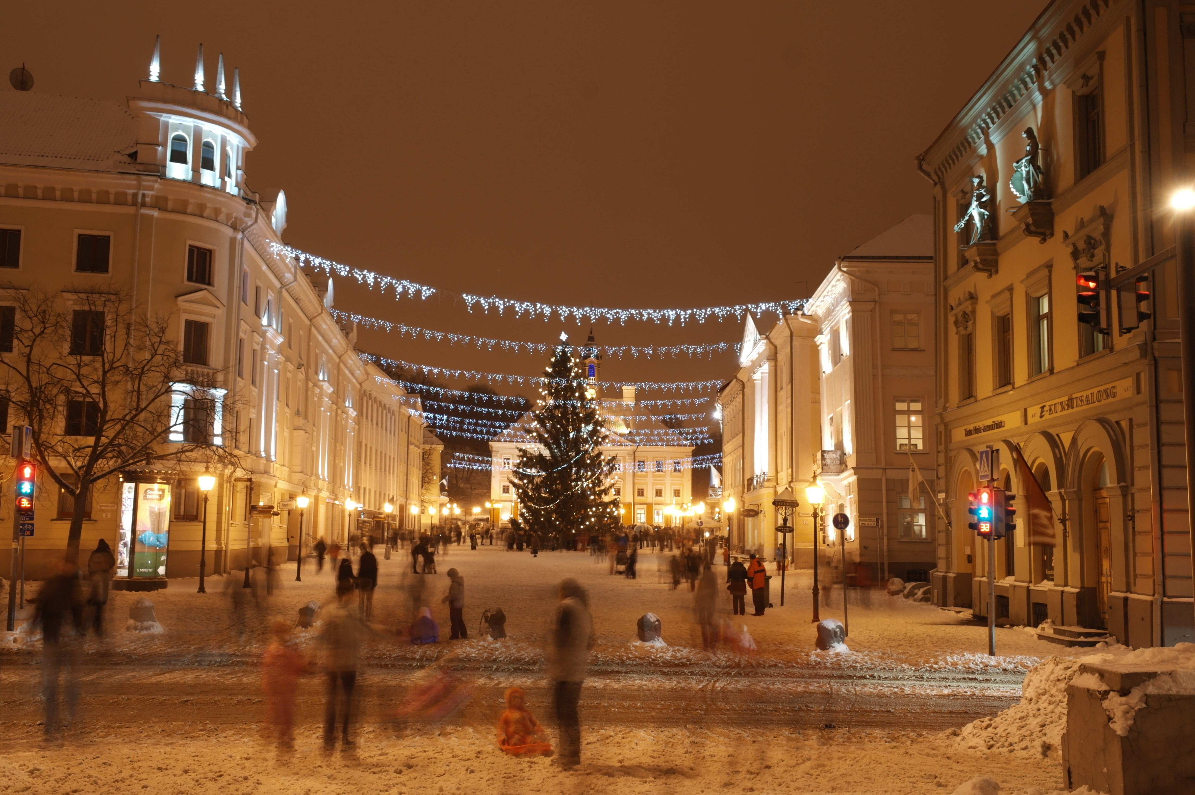 The First advent of 2012 in Tartu